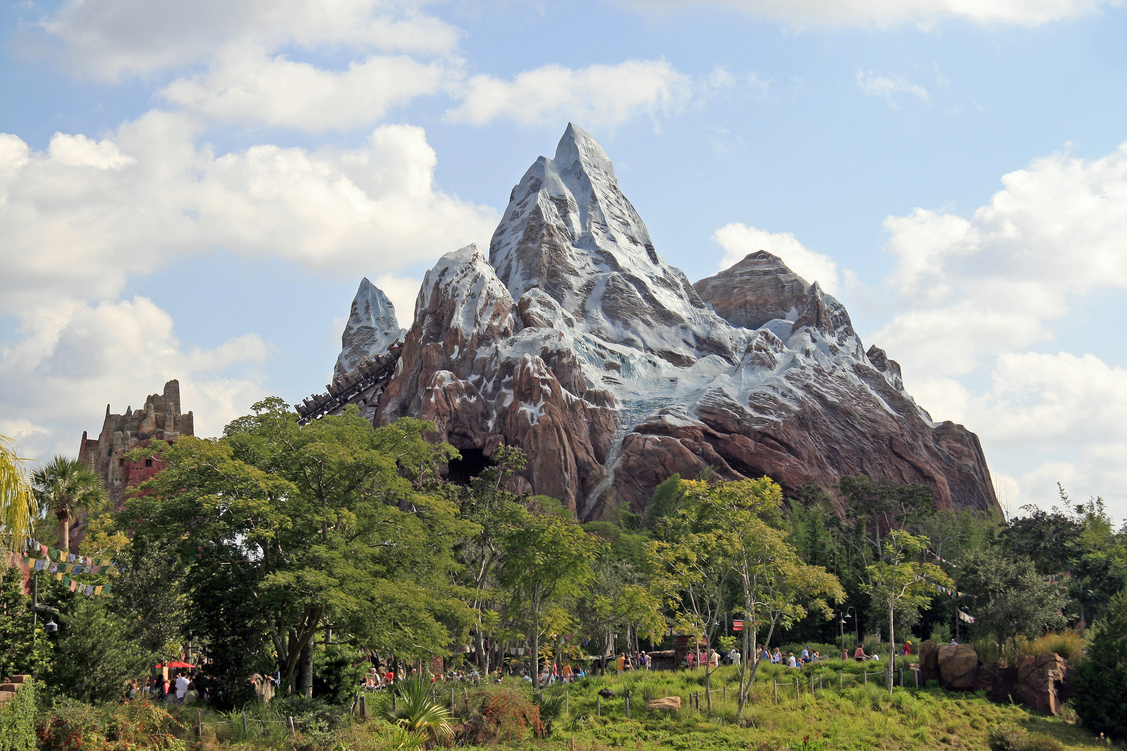 Disney Animal Kingdom - Expedition Everest